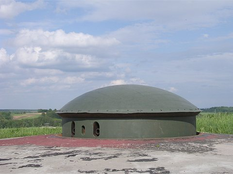 75 mm Retractable turret (Fortress Schoenenbourg - Maginot Line)